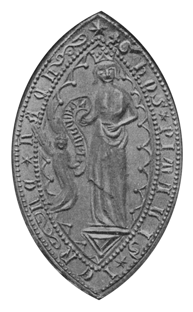 Scan of a photograph, depicting the seal's impression. This is the medieval seal of the Augustinian Hospitallers house of St. John the Baptist in Nenagh. From the original description by William Hugh Patterson: The seal or matrix is of silver, and is in a perfect state of preservation; it is 2 inches long and rather less an inch and a quarter wide. The rib, for giving strength, usually found in seals of this type, extends along the back, and is pierced with a hole for a ring or chain; on the flat surface of the back of the seal, close to the hole, two small stars of sixpoints have been engraved. [..] I am told that the inscription, which is in letters of the thirteenth century, is easily read, and is as follows: [..] ✚ S HOS PITALIS IER NE NAGH. [..] The device in the central part shows two female figures; the taller, I presume, is intended to represent the Virgin Mary, and the smaller one an angel holding a scroll, on which is inscribed “Ave Maria.”